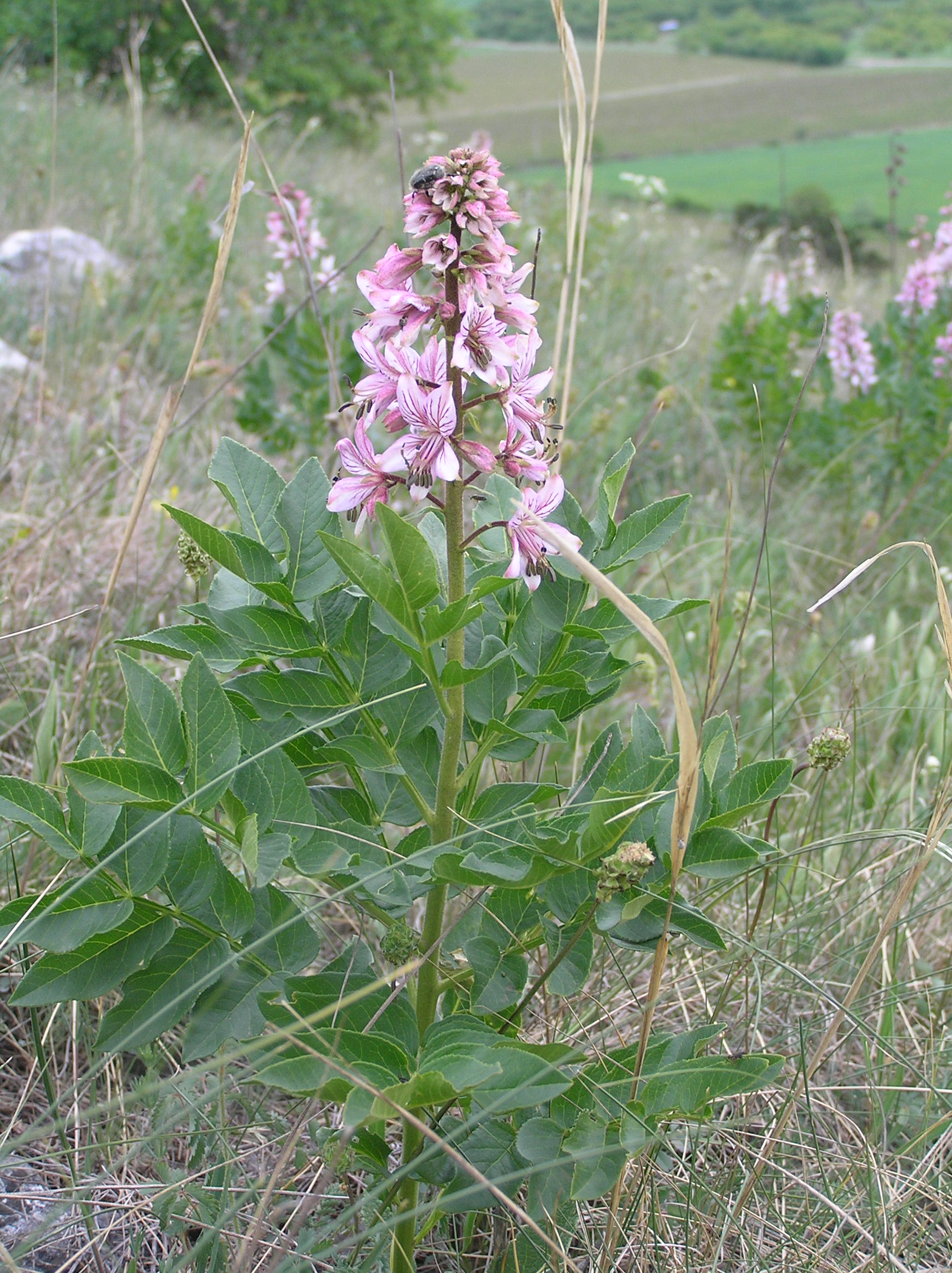 Dictamnus albus, Svatý Kopeček near Mikulov, Southern Moravia, Czech Republic